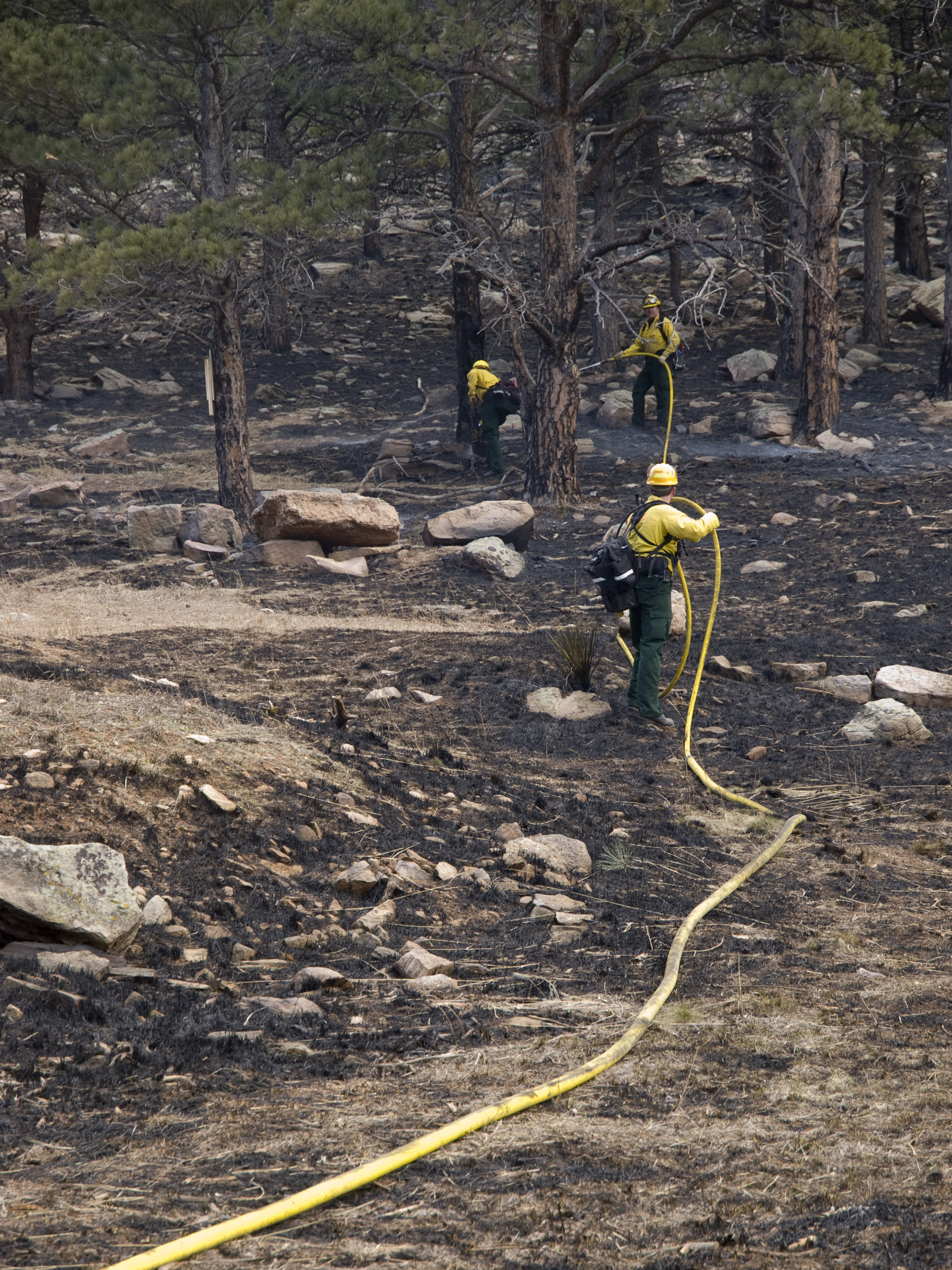 Boulder, CO, January 8, 2009 -- Boulder, Colorado January 8, 2009 - Four Mile Fire District works to mop up hot spots on the Old Stage Fire with the fire truck they received through a FEMA fire mitigation grant. Photo: Michael Rieger/FEMA